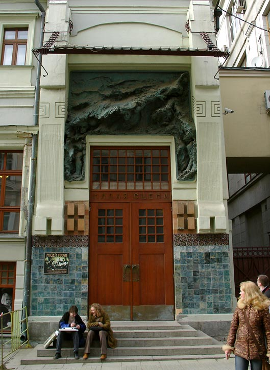 MKHAT (Moscow Art Theater), Kamergersky Lane, grand entrance by Fyodor Schechtel, sculpture by Anna Golubkina